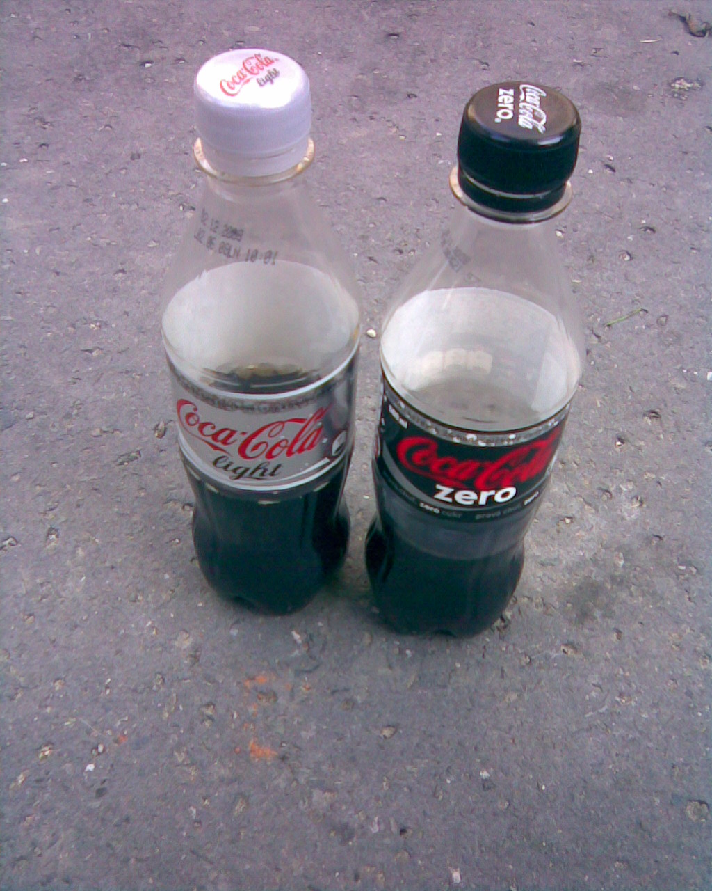 Bottles of Coca-Cola Zero a Coca-Cola Light